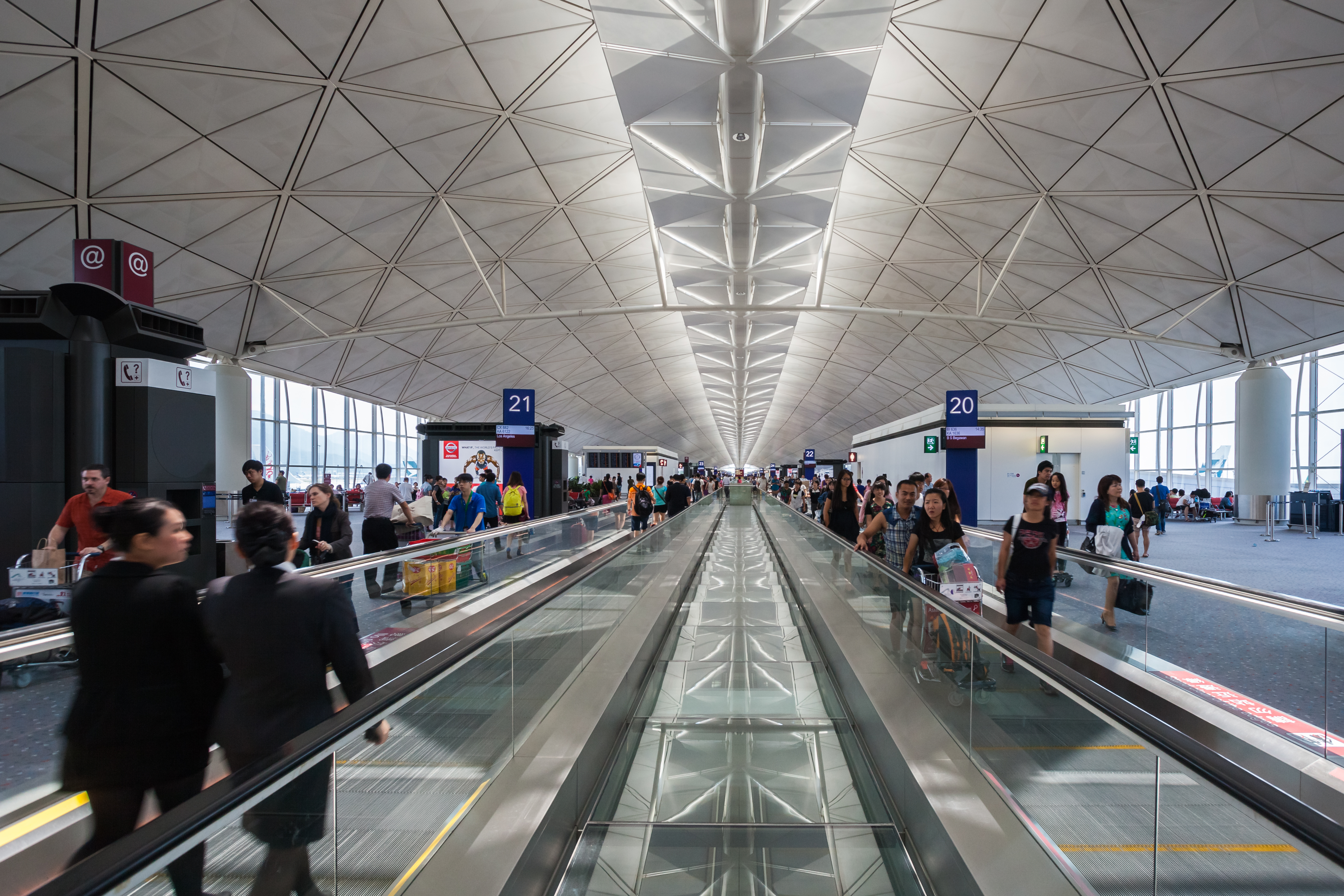 Hong Kong Airport